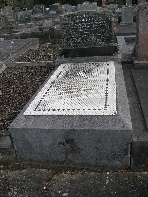 Grave of Hannah Dudley